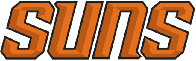 The current wordmark logo for the Phoenix Suns. First used beginning with the 2012–13 NBA season.